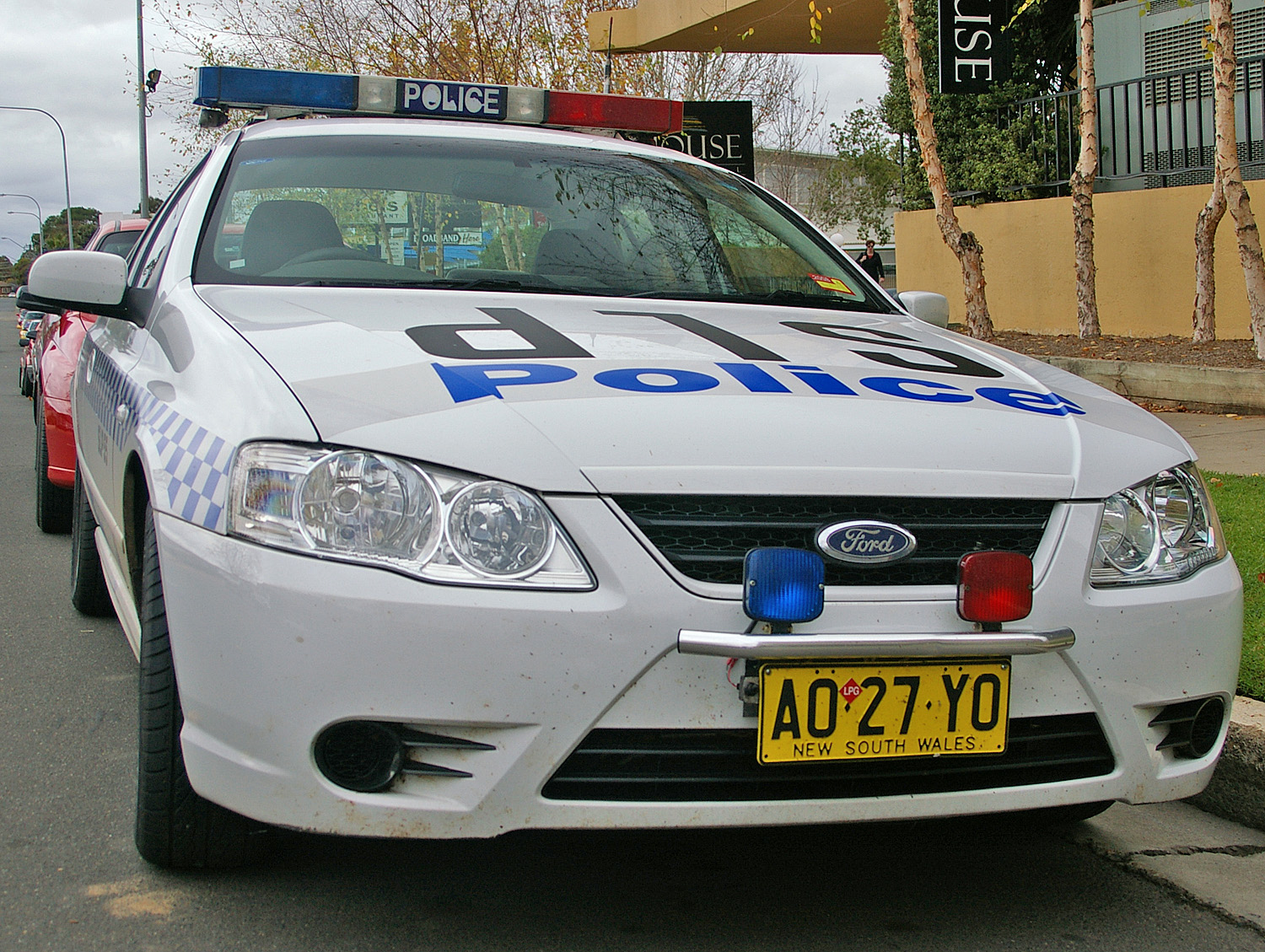 New South Wales Police Force Ford Futura MKII.